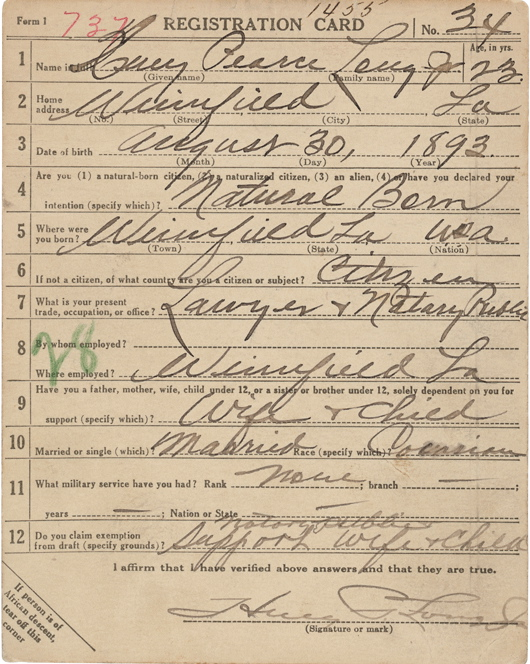 World War I draft registration card of Huey P. Long